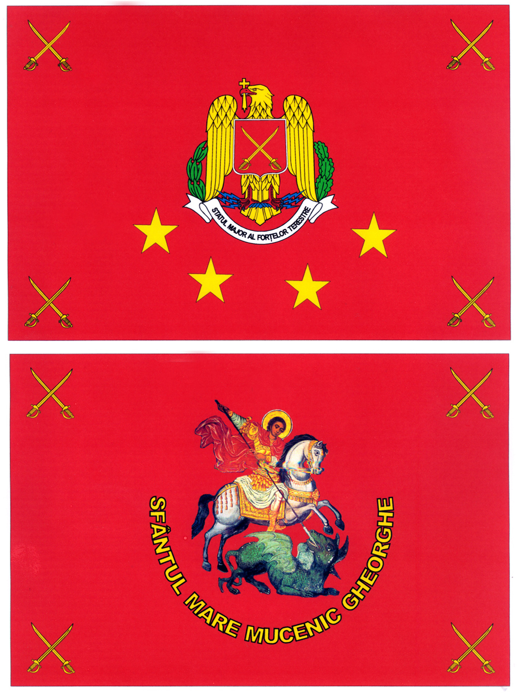 a scanned picture of both sides of the flag. taken from the online photo database of The Ministry of National Defense.